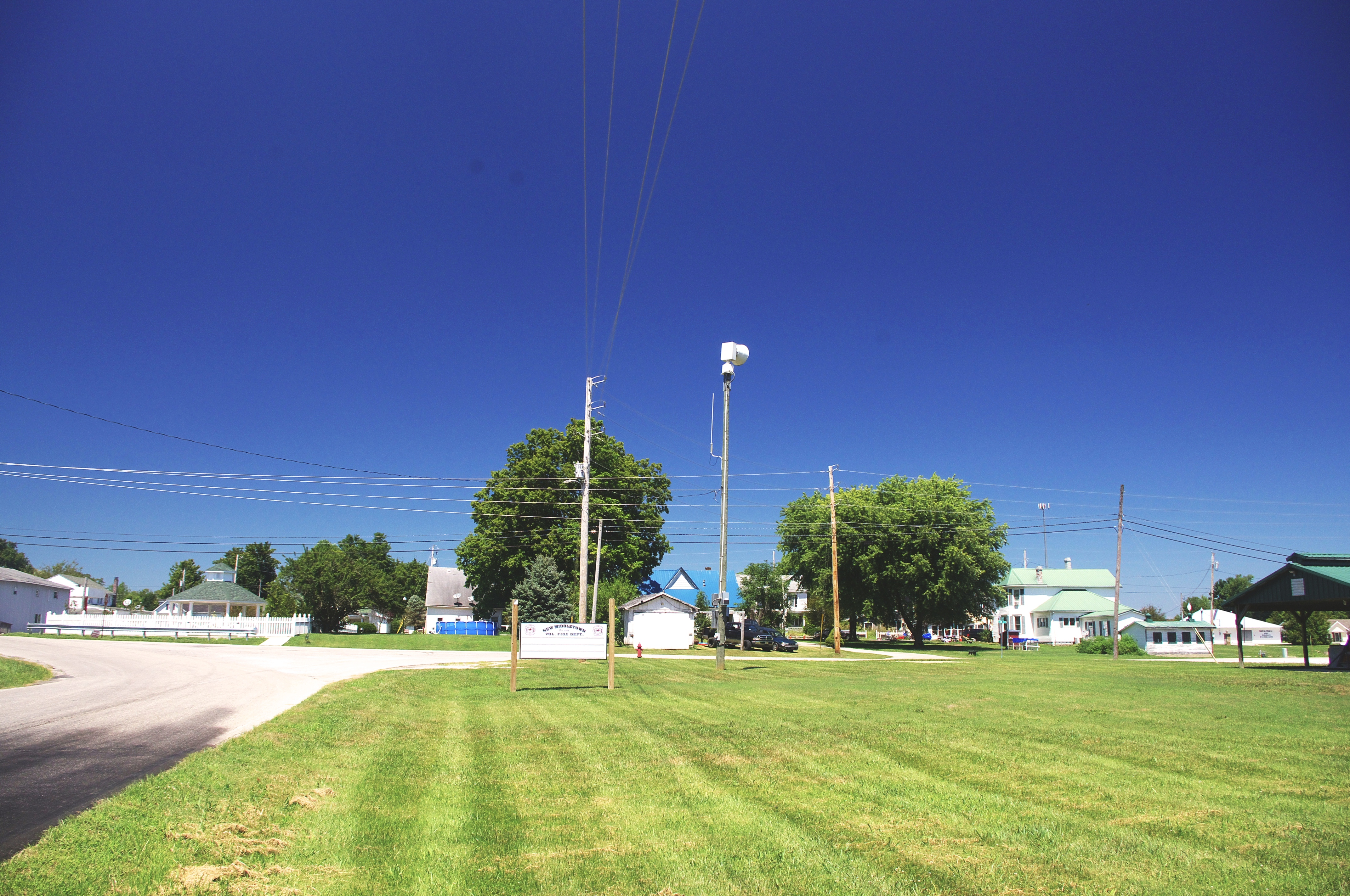 Houses along Fire Lane in New Middletown, Indiana, United States.